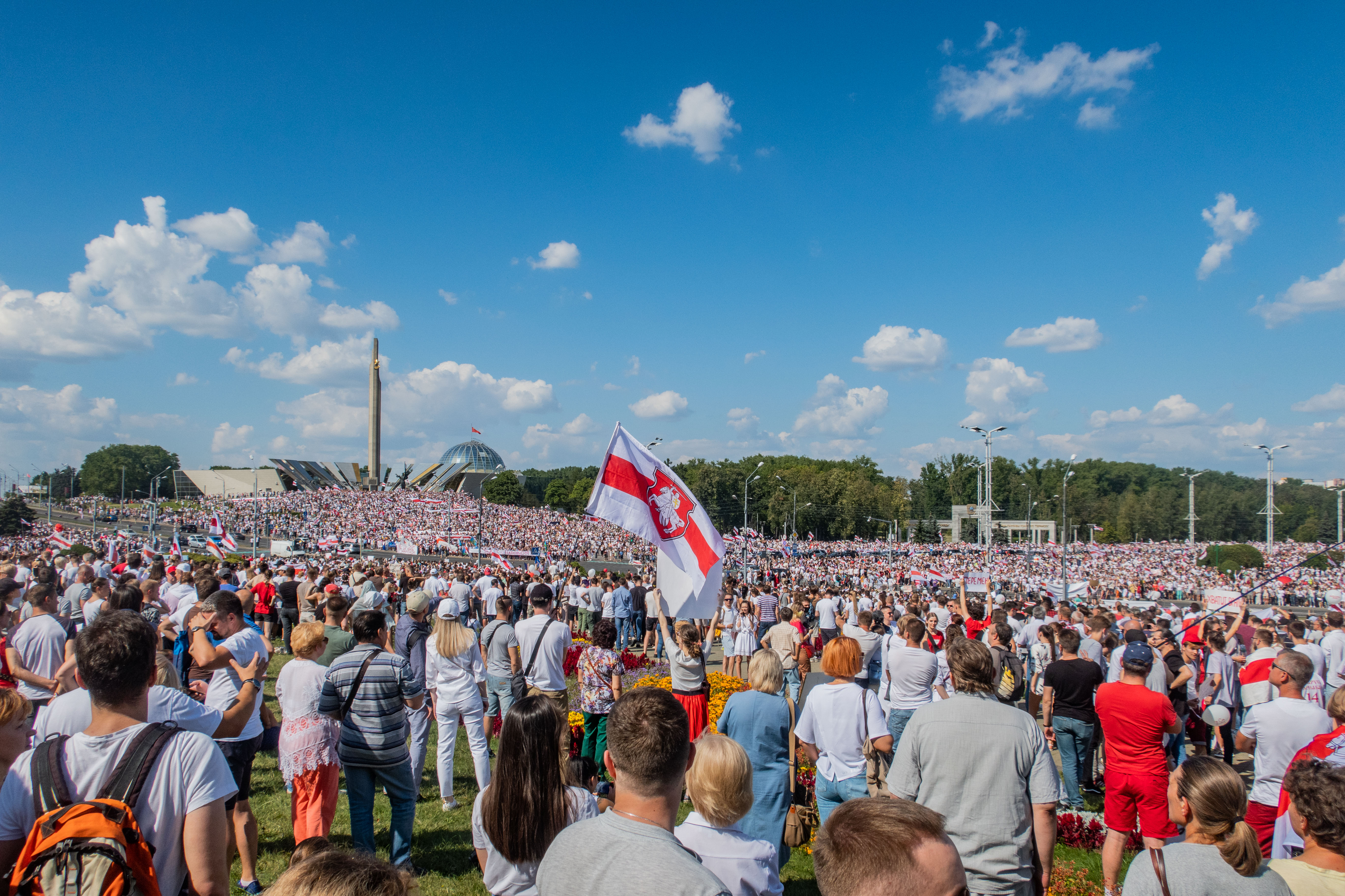 Protest rally against Lukashenko, 16 August. Minsk, Belarus